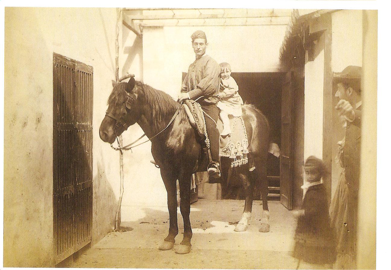 Albumin paper print